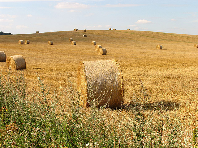 Harvested Land on Grange Farm: Newbury. This photograph shows the hill seen in the south eastern section of the square, taken from the edge of the square, looking more or less north north west. This square is all farmland.